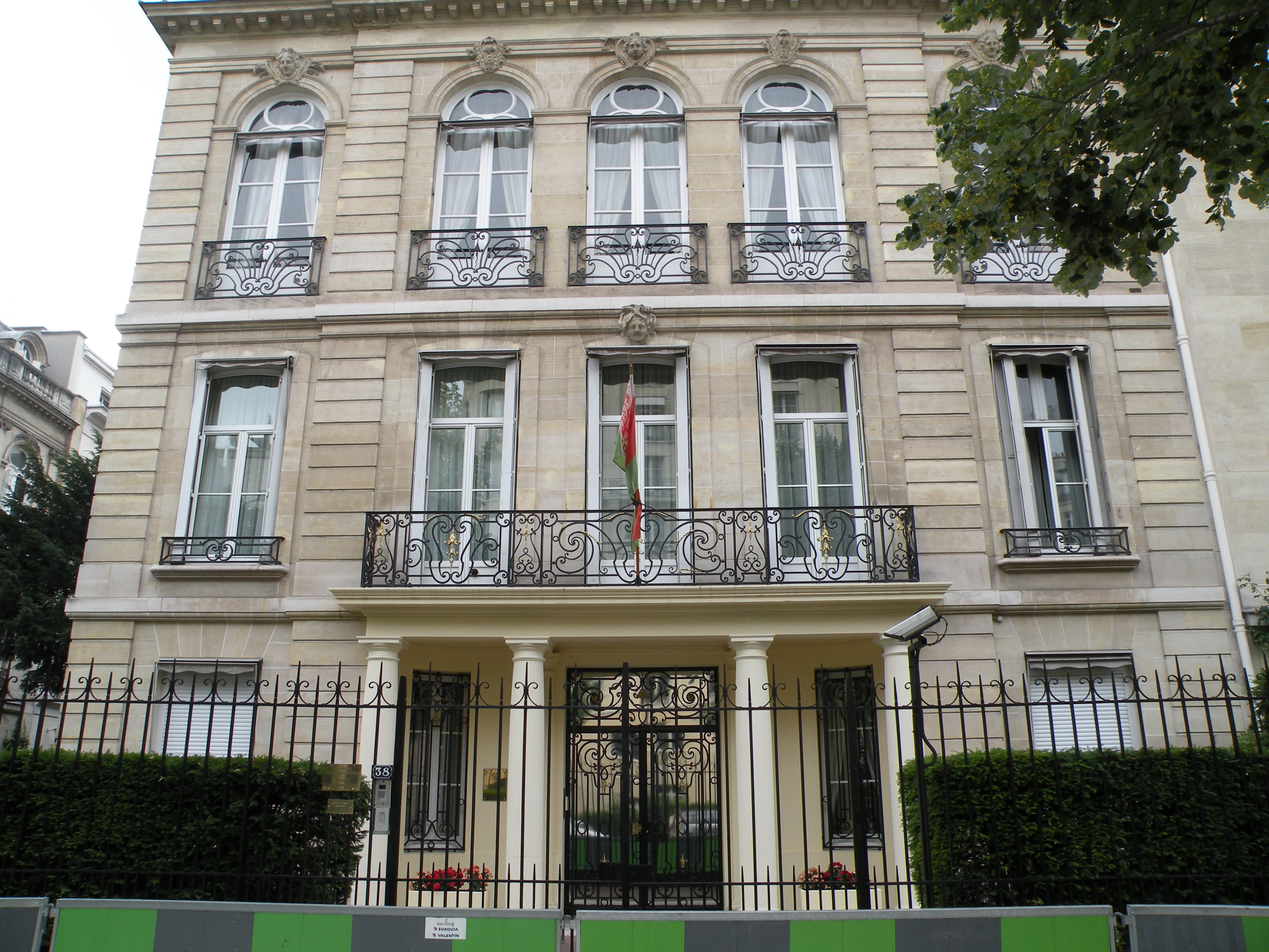 Belarusian embassy in France, Paris.